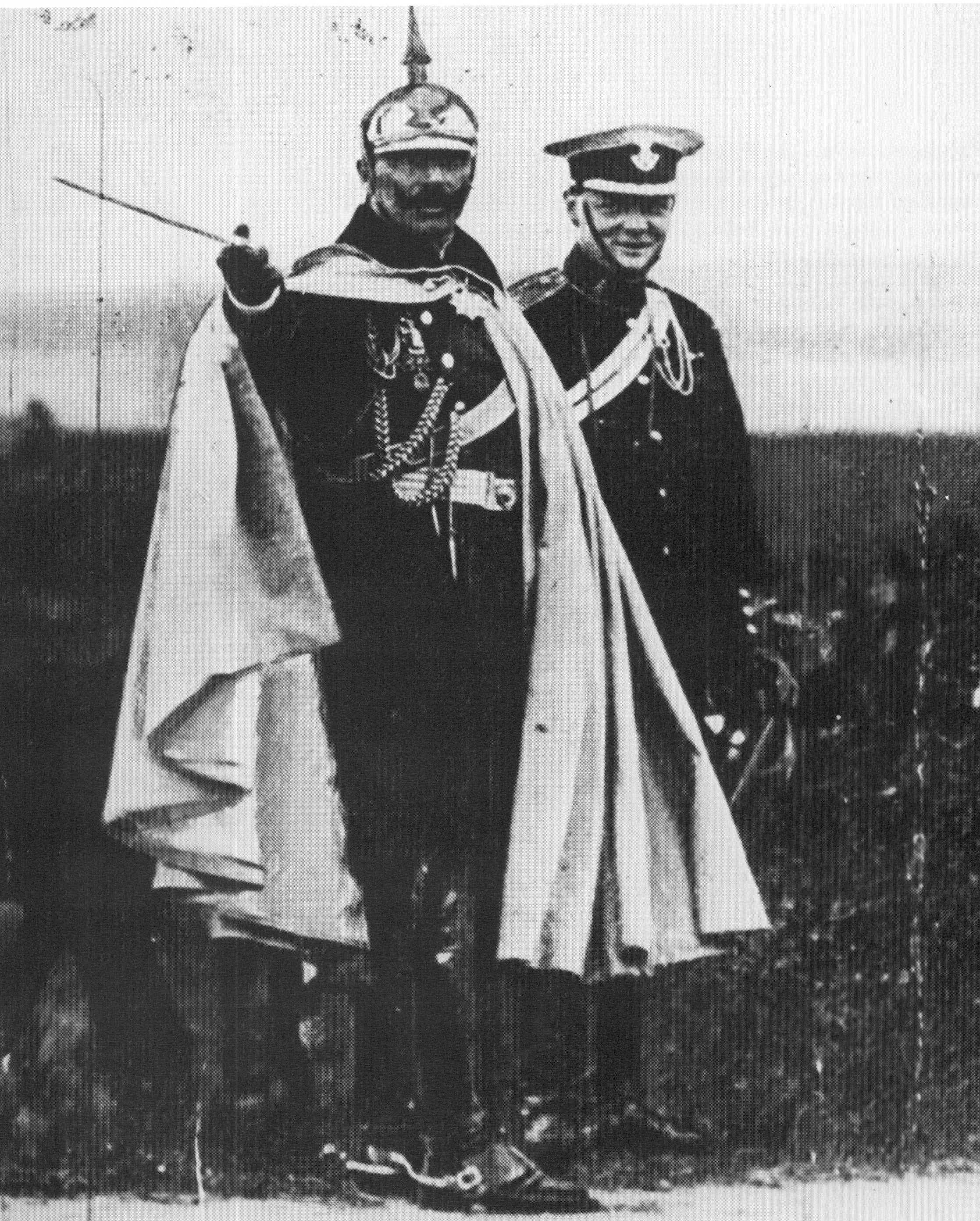 Winston Churchill and German Emperor Wilhelm II during a military autumn maneuver near Breslau, Silesia, Germany in 1906.